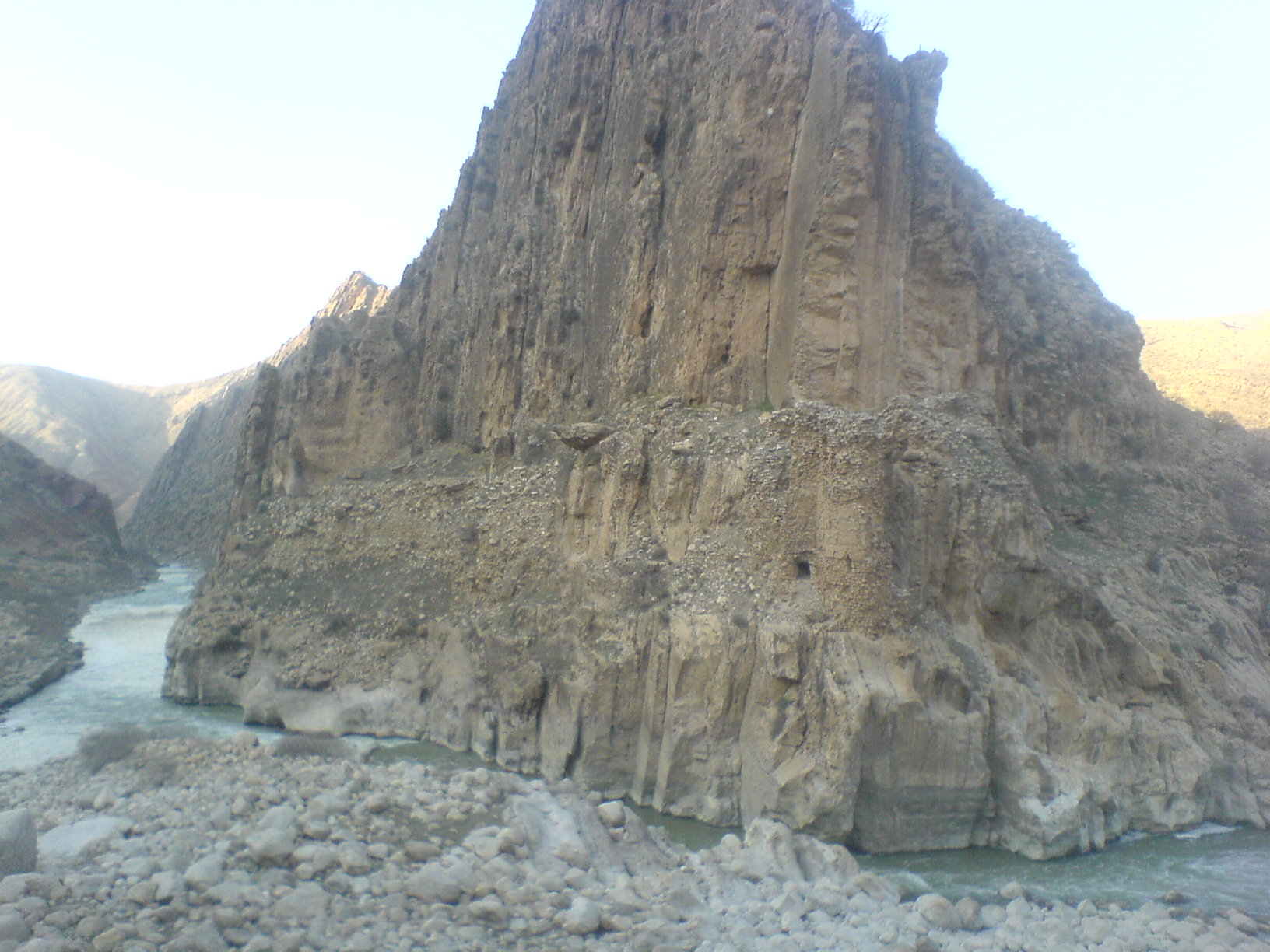 Seymareh River, Zagros Mountains, Lorestan Province, Iran زلال انگیز 1